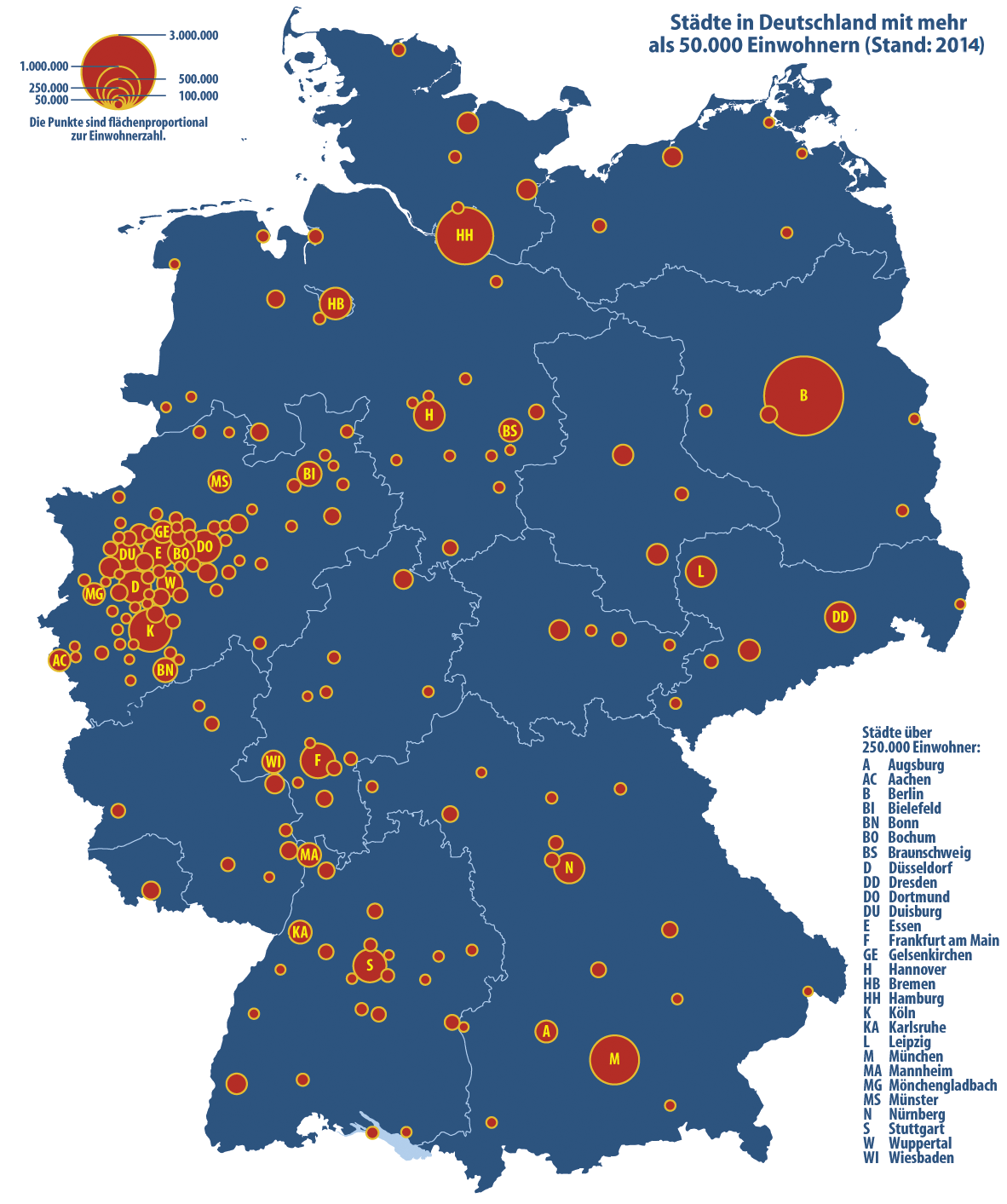 Map of towns in Germany with more than 50.000 inhabitants